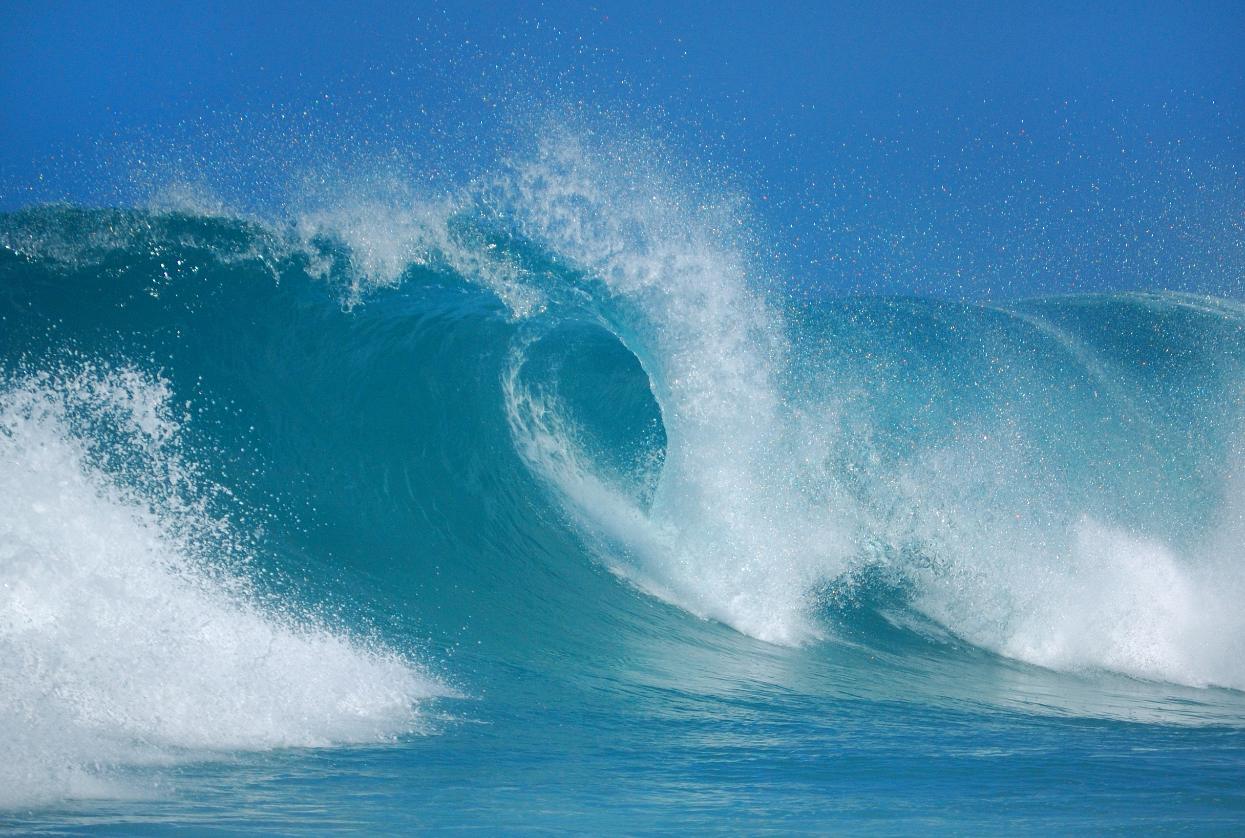 Some of the recent rough surf in NSW thanks to the cyclone up in Queensland. Best viewed large so you can get up close inside the tube.